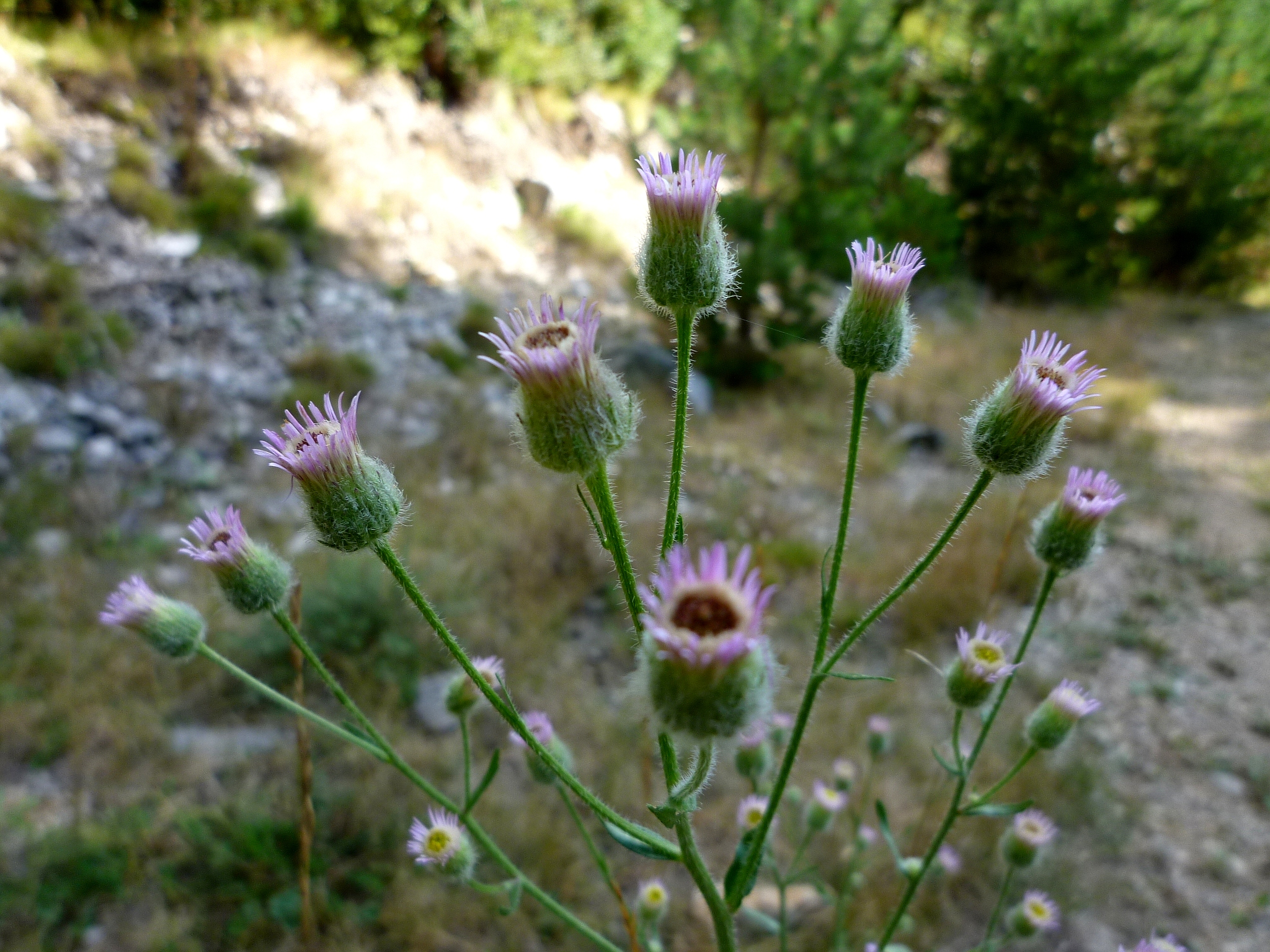 Erigeron acer. In la Bòfia, Guixers (Solsonès - Catalunya). To 1.650 m. altitude